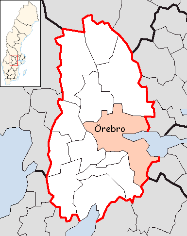 Örebro Municipality in Örebro County Designd by me, based on Image:Örebro County.png